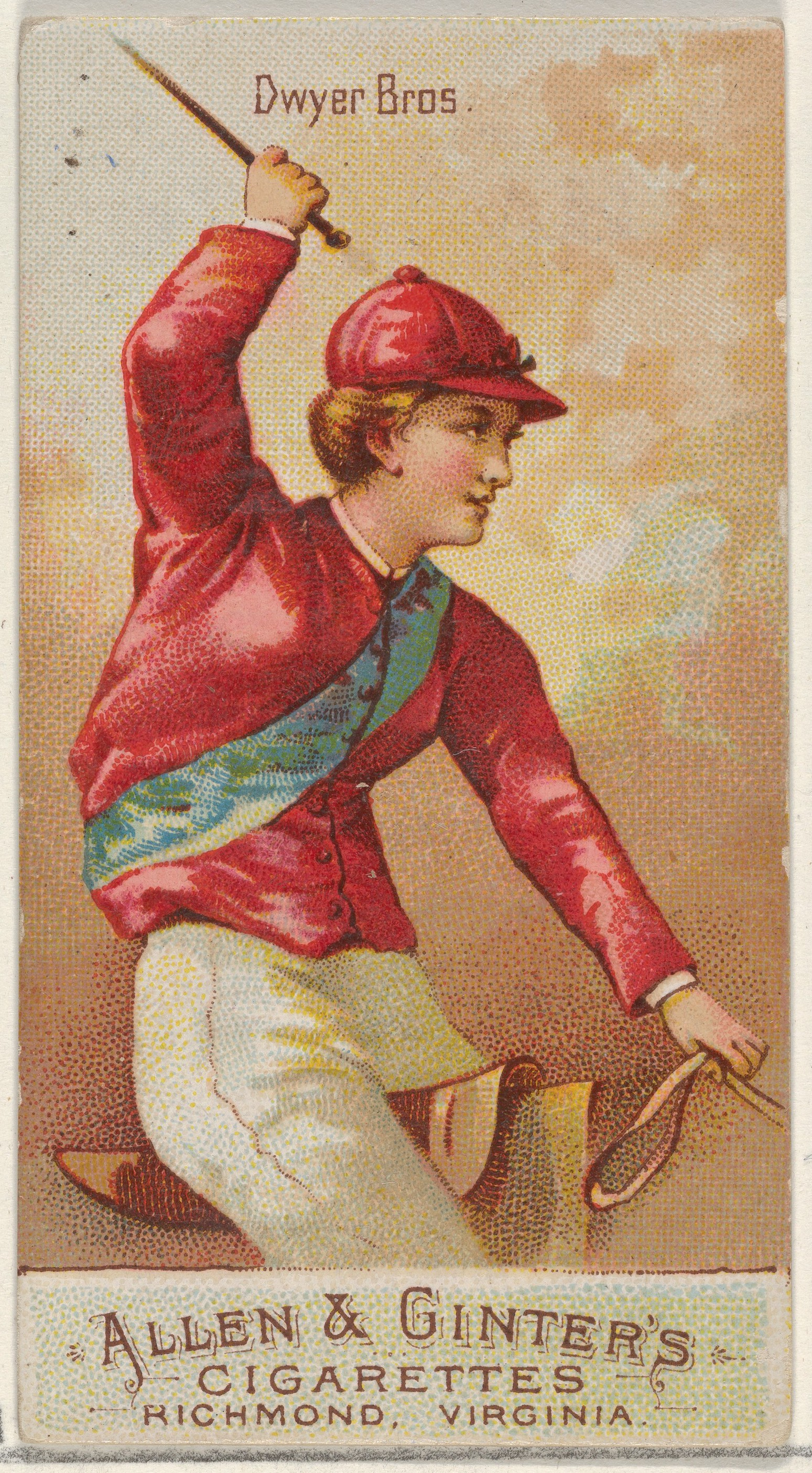 Print; Prints/Ephemera